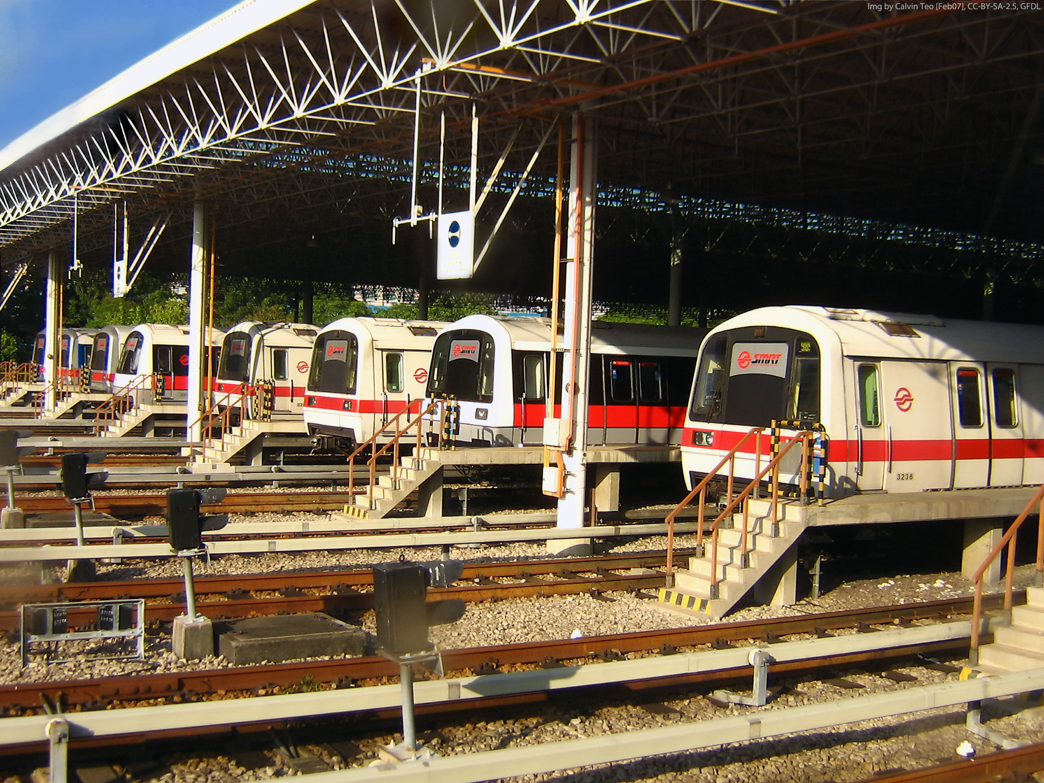 Trains parked at the bay of the SMRT Trains Bishan Depot. From Right: C651, C151 Refurbished, C651, C651, C751B, C151, C151, C151 cars.